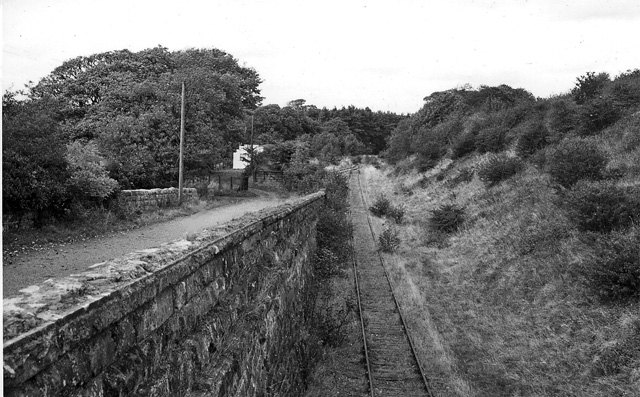 Branthwaite Station (remains) View northward, towards Camerton; London & North Western & Furness Joint (Whitehaven, Cleator & Egremont) line, Camerton - Cleator Moor. Passenger services ceased and the station was closed 13/4/31, but goods continued until the line was closed completely on 3/5/54.